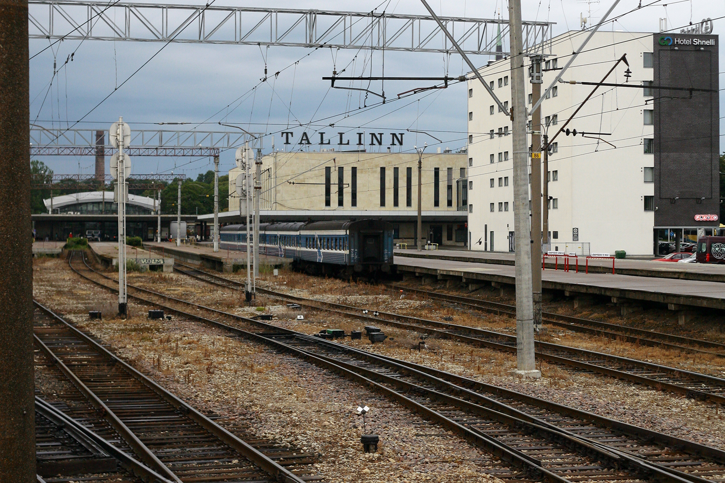 View of Balti jaam (The Baltic Station) from the east, from the end of platforms. Hotel "Schnelli" is seen in the foreground. The Balti jaam passenger's waiting pavilion is seen in the middle, and the market building, which was the original waiting pavilion for the commuter trains in the Soviet era.